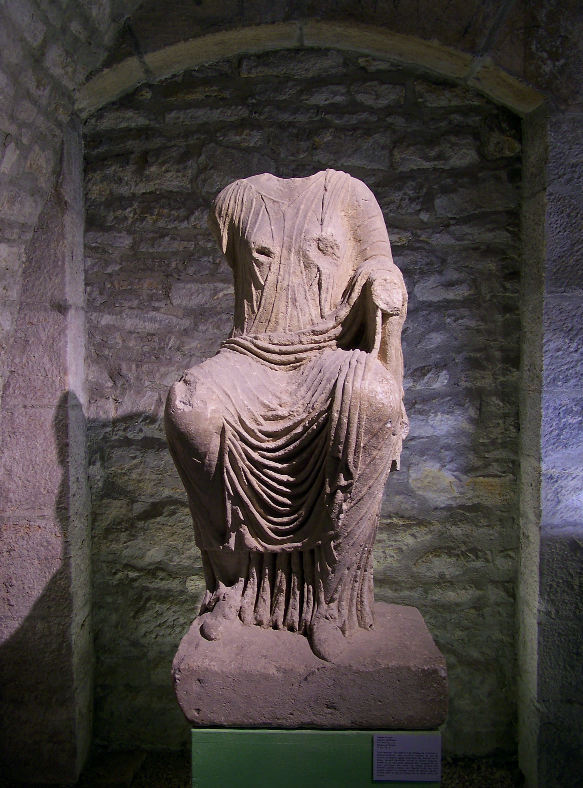 Gallo-roman statue of a fluvial goddess (could be Sequana), found in 1953 in the Sirène river in Gissey-sur-Ouche. Oolithic limestone, Ist century A.D. Kept in the Musée archéologique de Dijon.